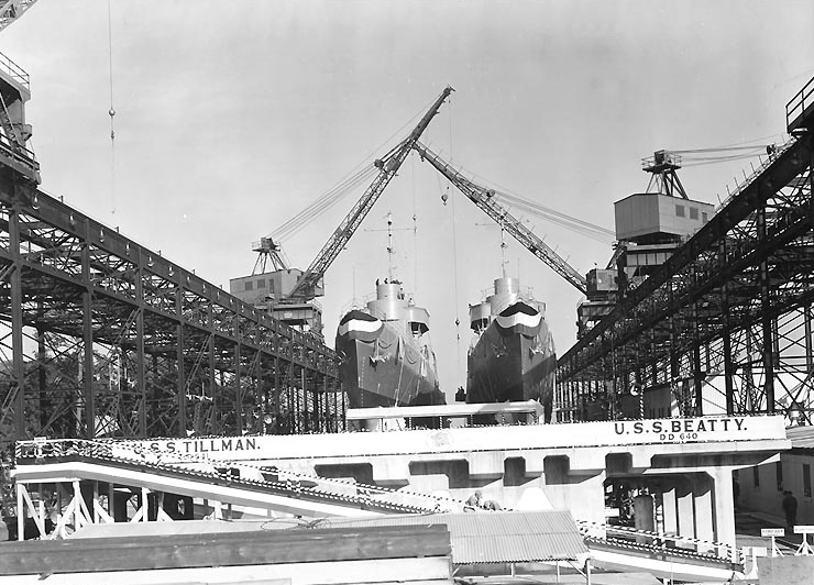 The U.S. Navy destroyers USS Tillman (DD-641), left, and USS Beatty (DD-640) on the building ways while being prepared for their dual launching ceremonies at the Charleston Navy Yard, South Carolina (USA), on 20 December 1941.